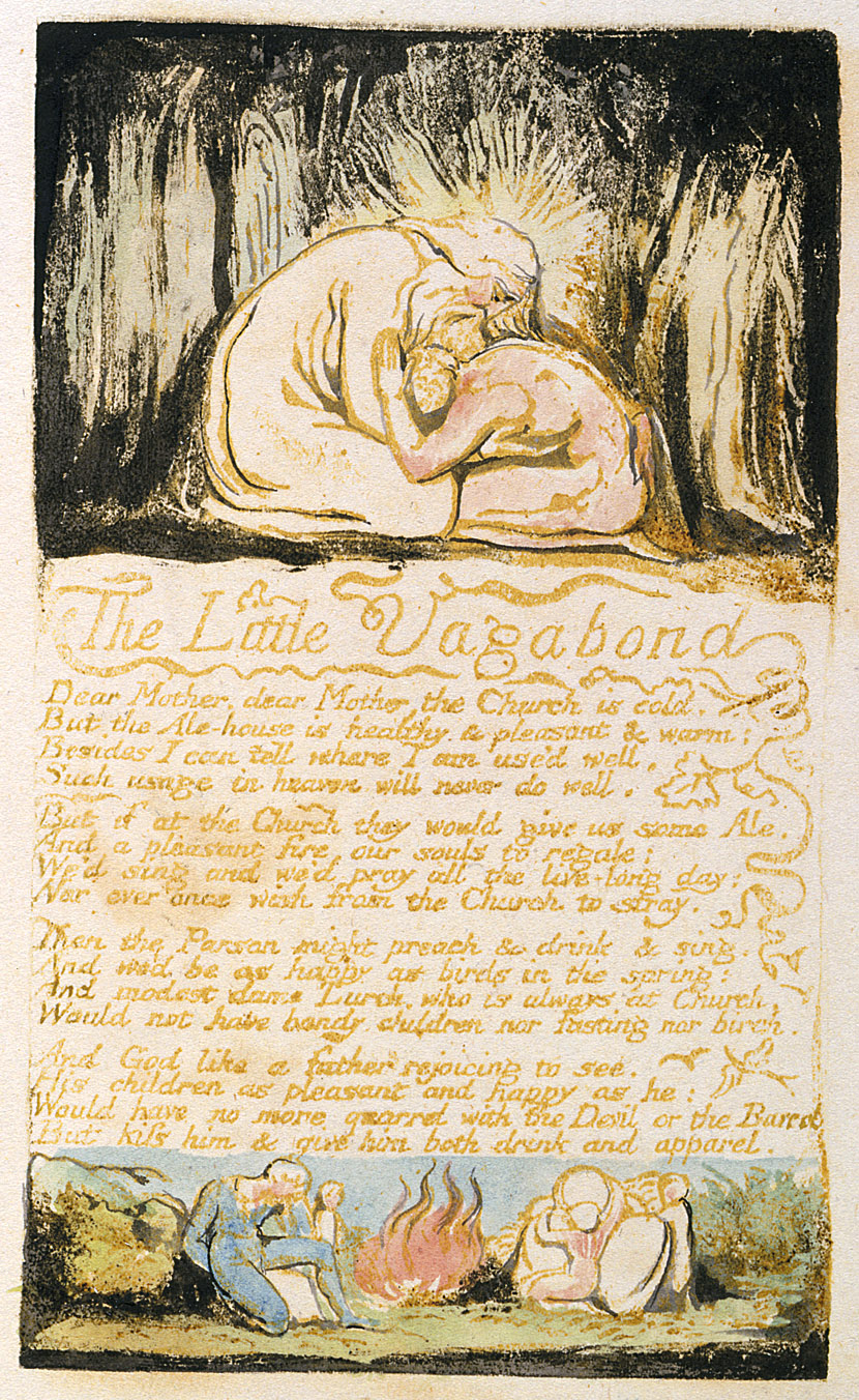 Songs of Innocence and of Experience, copy B, 1789, 1794 (British Museum) object 37-45 The Little Vagabond